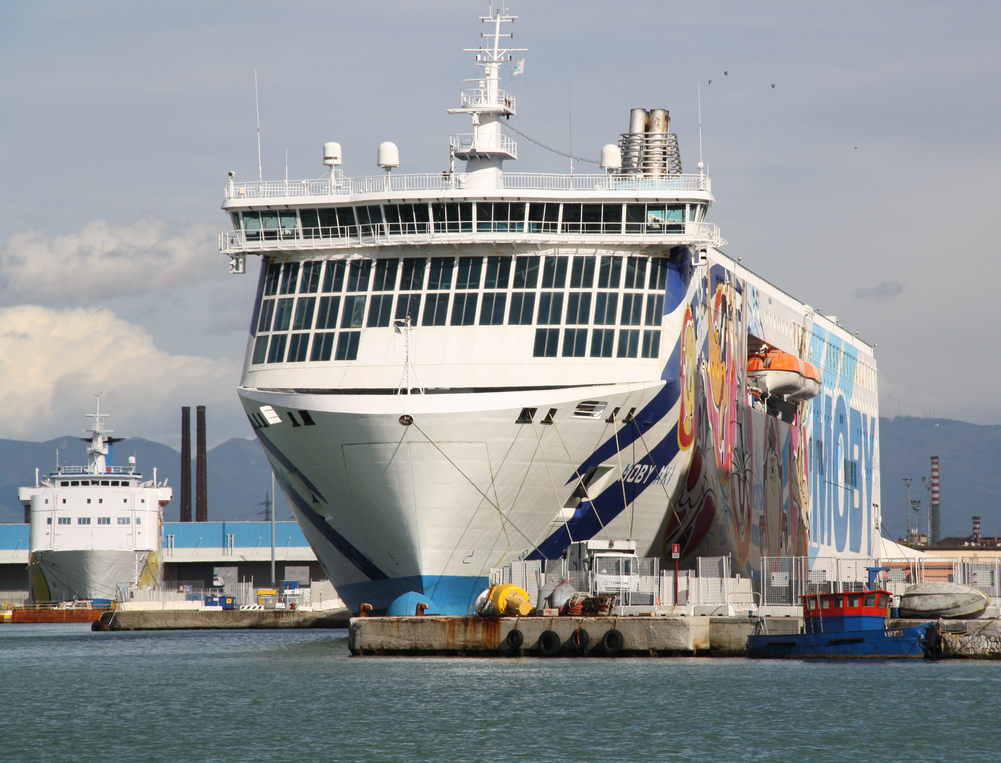 Italy, Port of Livorno. The Moby Lines fast cruiseferry Moby Aki berthed at "Bacino Cappellini" of "Porto Mediceo".